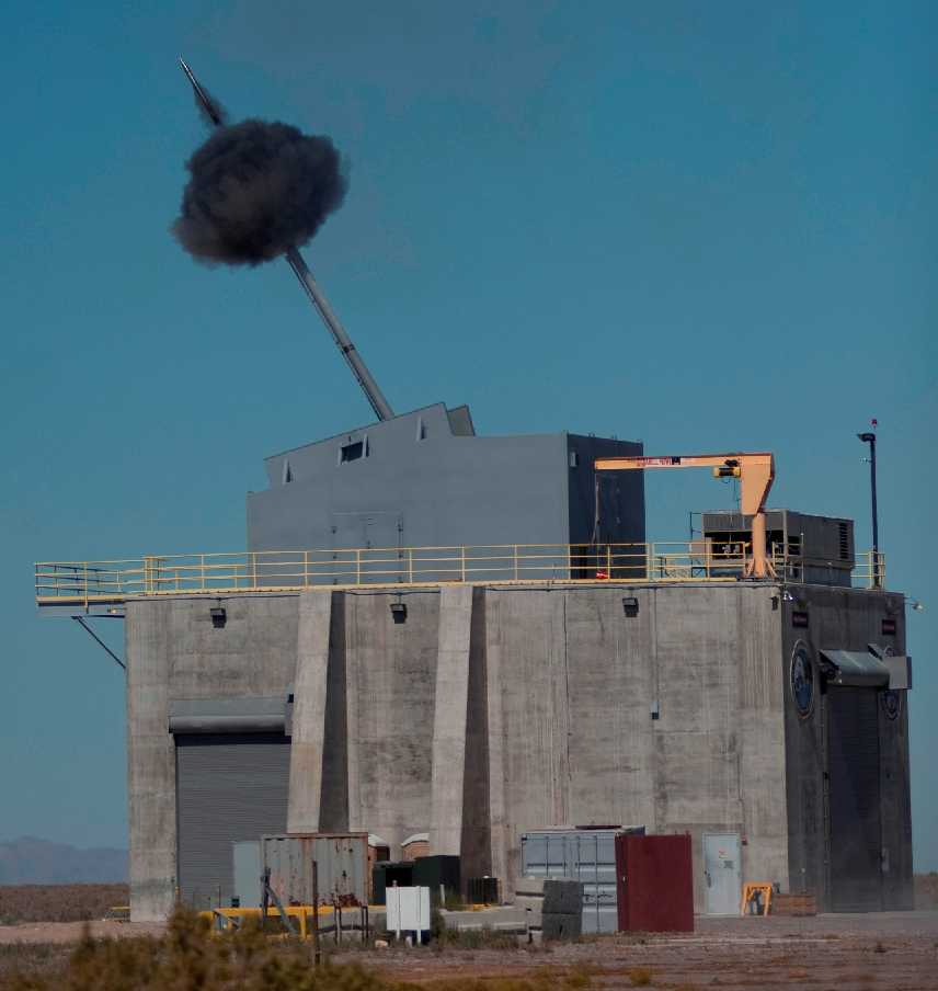 AGS being fired in September 2009 to test a new coating intended to extend barrel life at Dugway Proving Ground, Utah